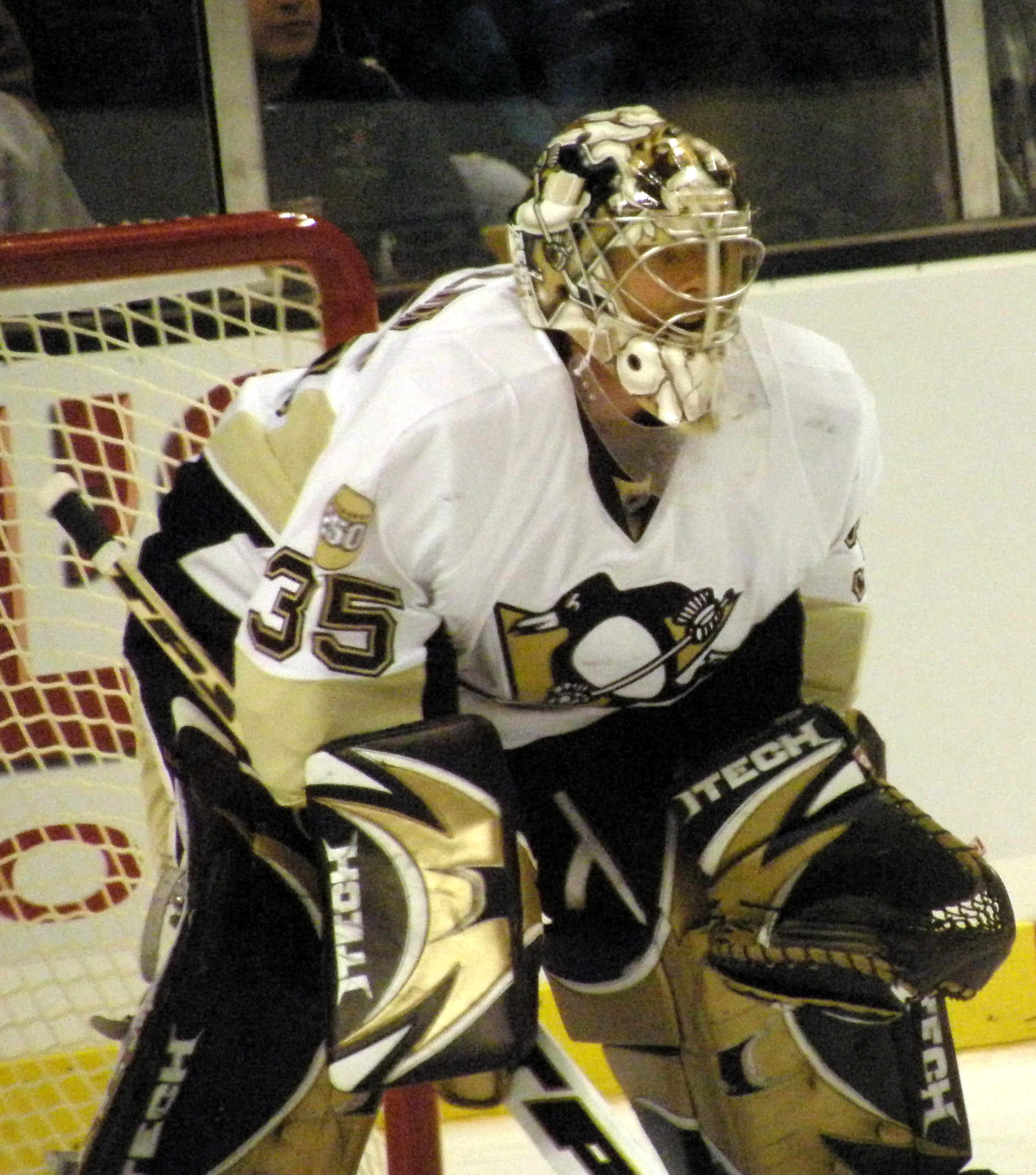 #35 Ty Conklin (G), Pittsburgh Penguins